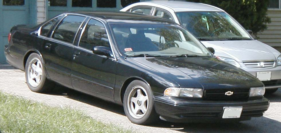 1994-1996 Chevrolet Impala SS photographed in USA.